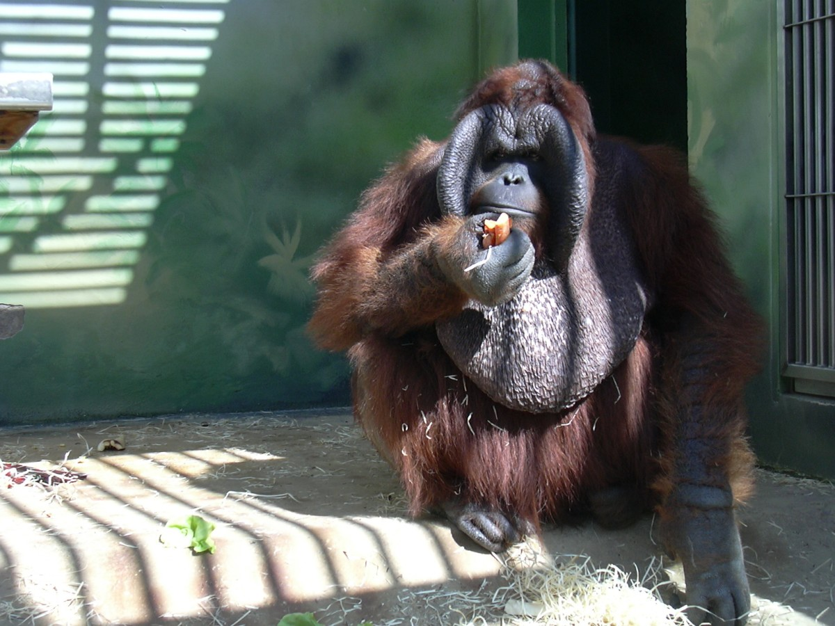 Male Bornean Orangutan (“Ňuňák”) in Zoo Ústí nad Labem, Czechia